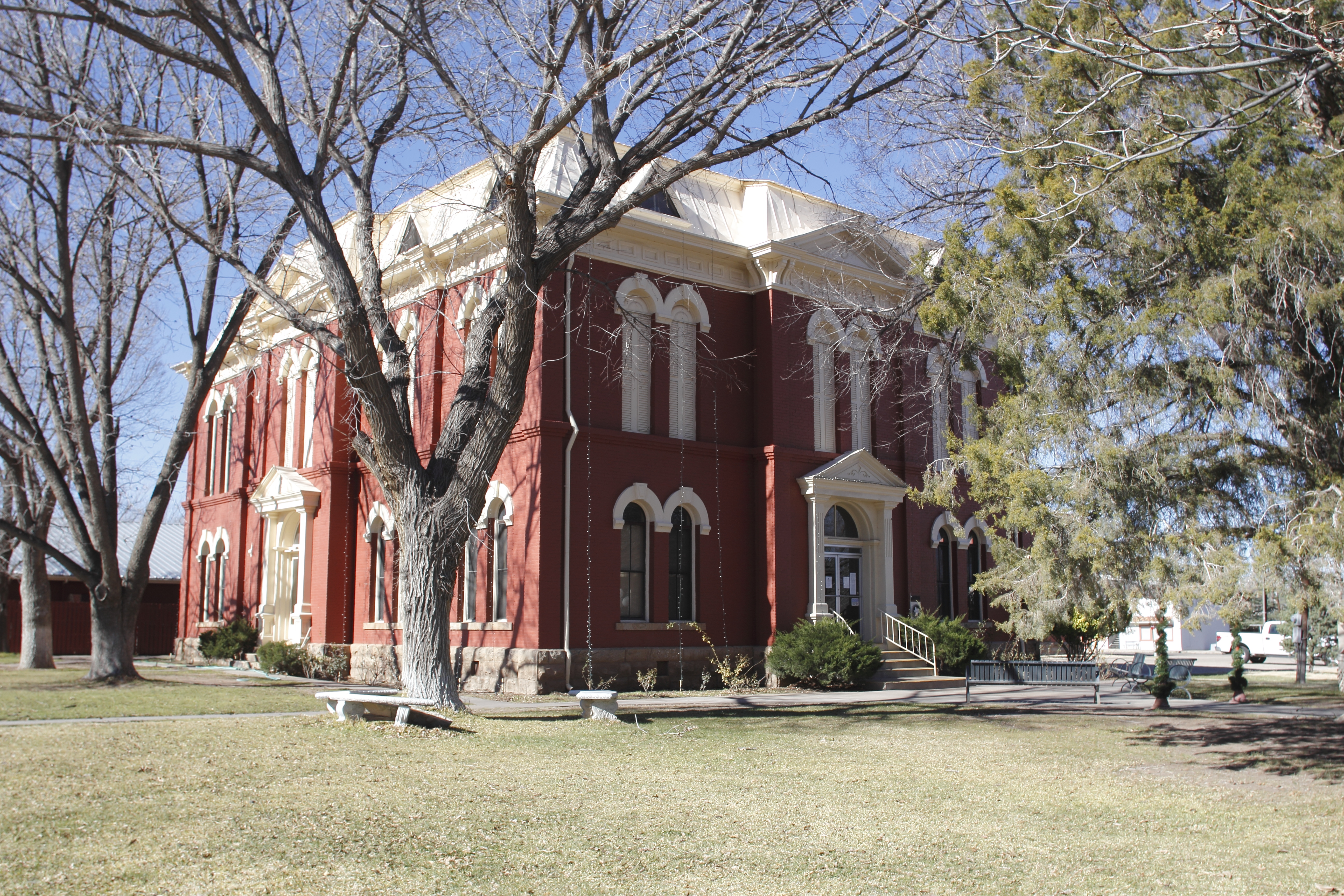 The Brewster County Courthouse in Alpine, Texas, United States. The courthouse was designated a Recorded Texas Historic Landmark in 1965 and listed on the National Register of Historic Places on July 17, 1978